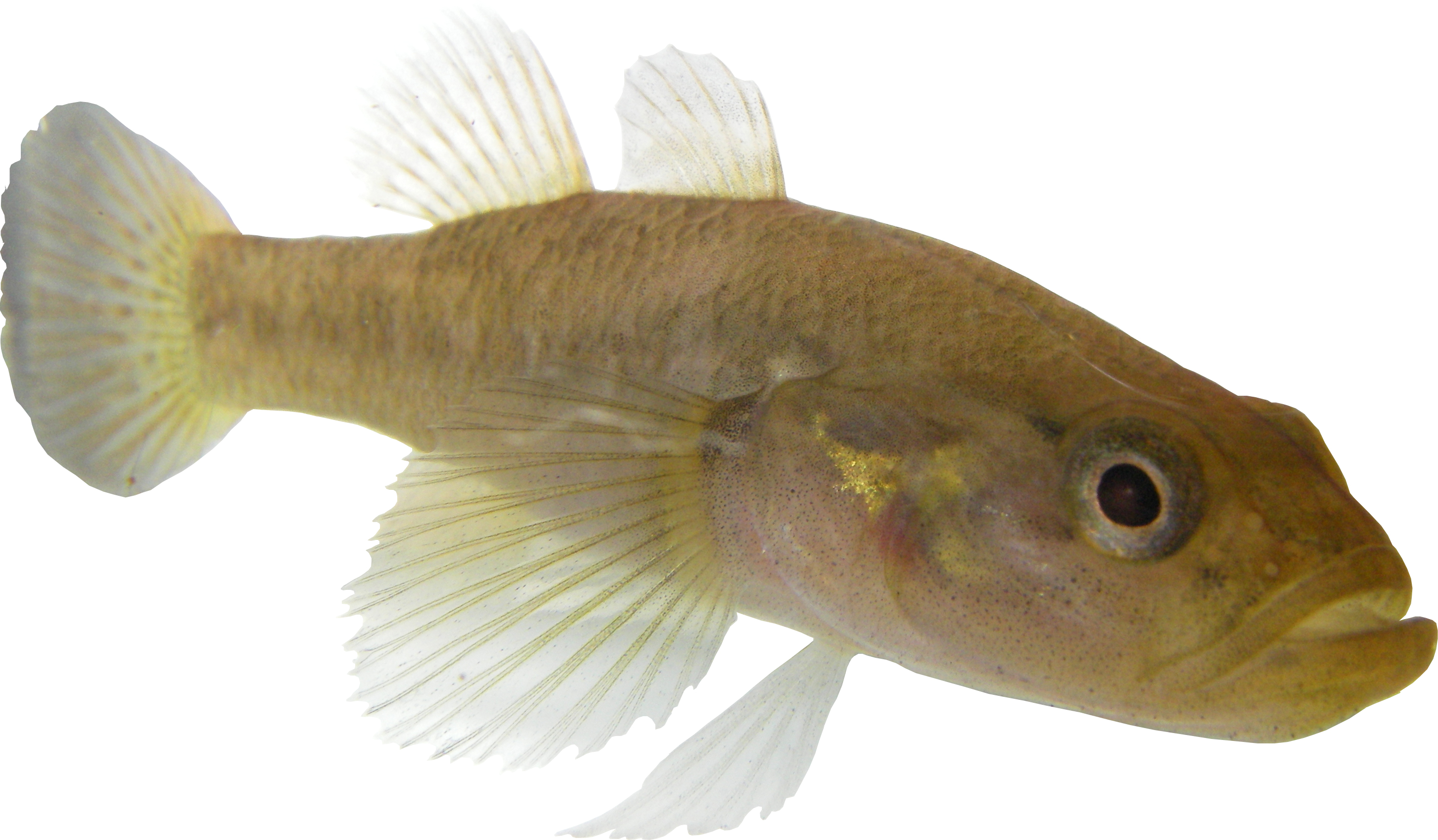 Ratsirakia legendrei (Eleotridae) from Madagascar; picture taken in a glass tank in the Université d'Antananarivo, Département de Biologie Animale (Antananarivo, Madagascar)